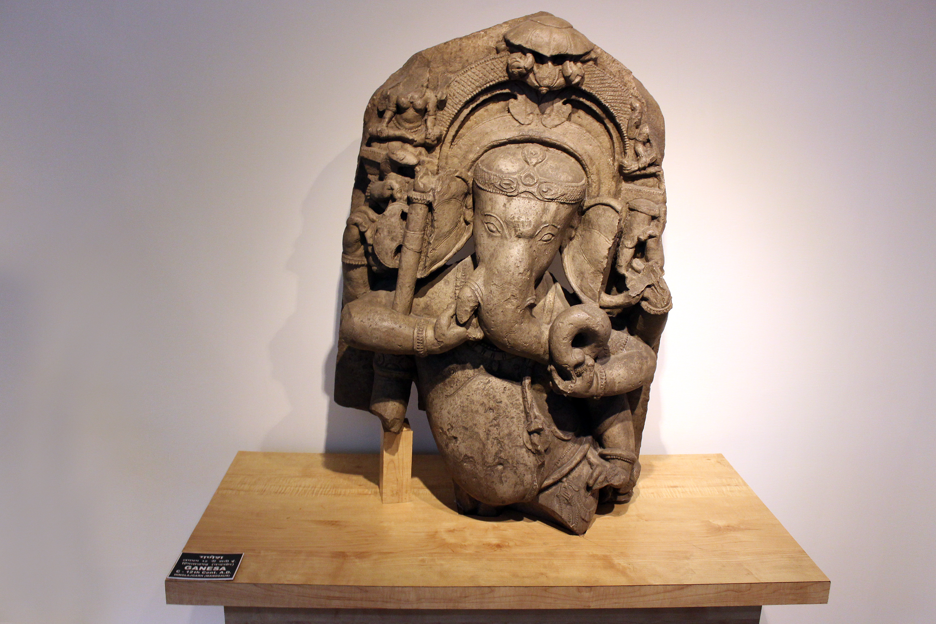 Ganesh Statue Mandsour India